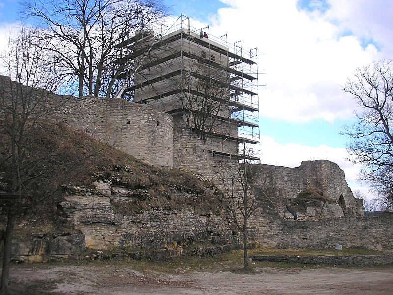 Treuchtlingen castle (Landkreis Weißenburg-Gunzenhausen, Middle Franconia, Germany). View from the south